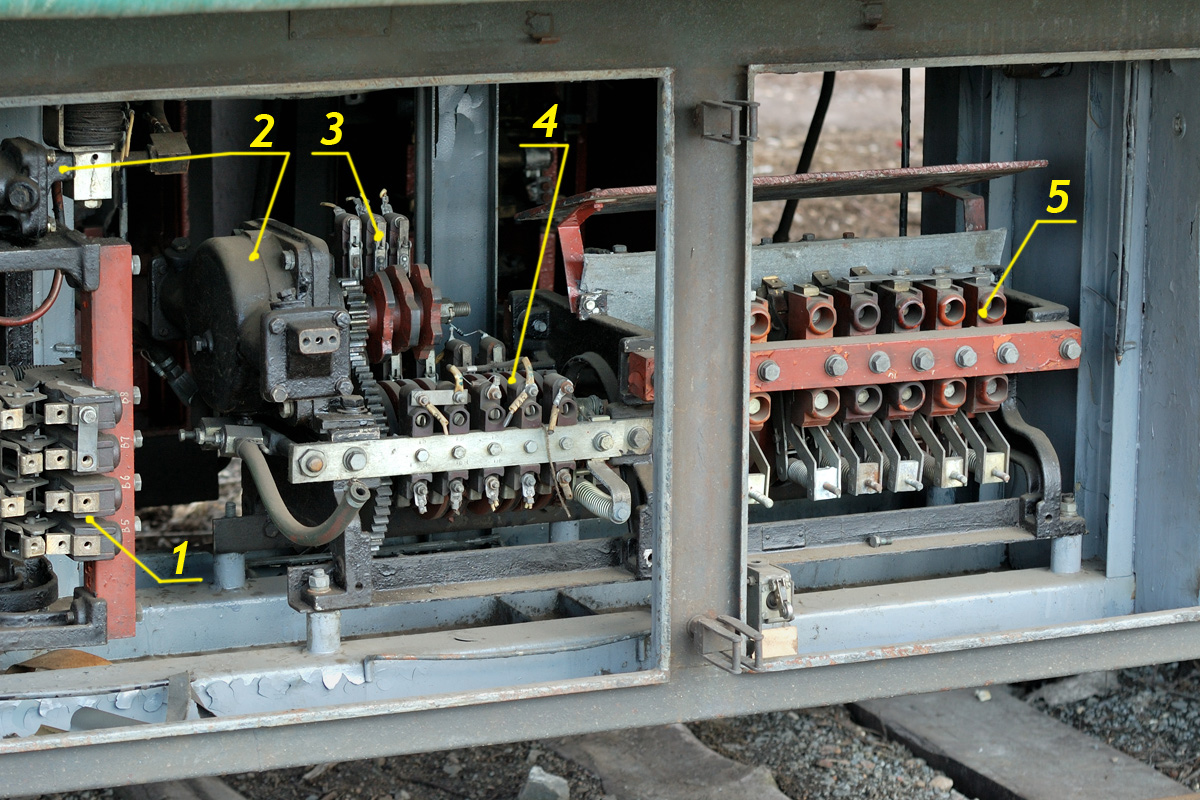 Electro-pneumatic traction rheostat controller KSP-1A of russian electric multiple unit ER2. 1 — reverser, 2 — pneumatic drives, 3 — KSP drive self-management contacts, 4 — control contacts, 5 — high-voltage contactors